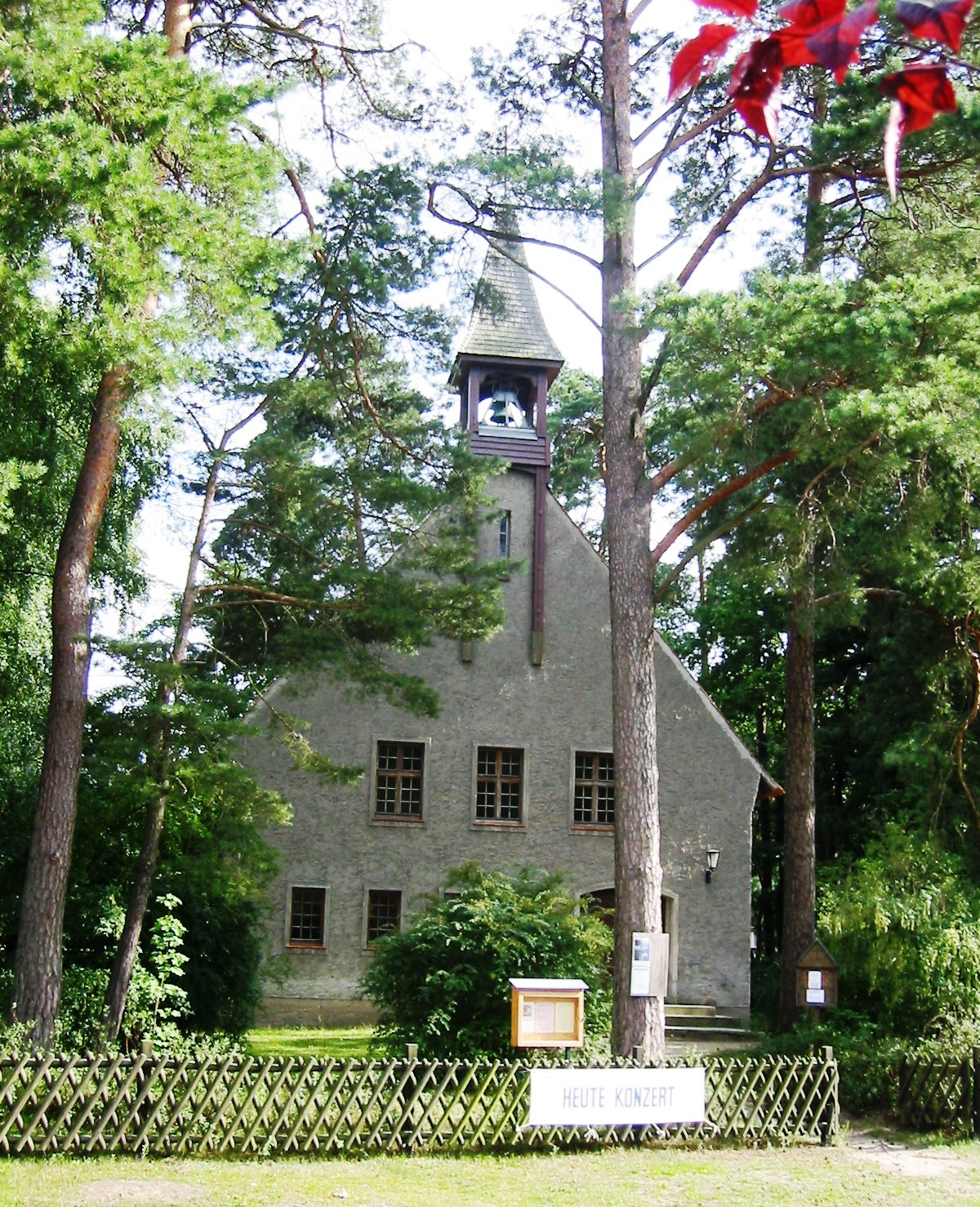 St. Peter's Church in Lubmin (Mecklenburg-Vorpommern in Germany)